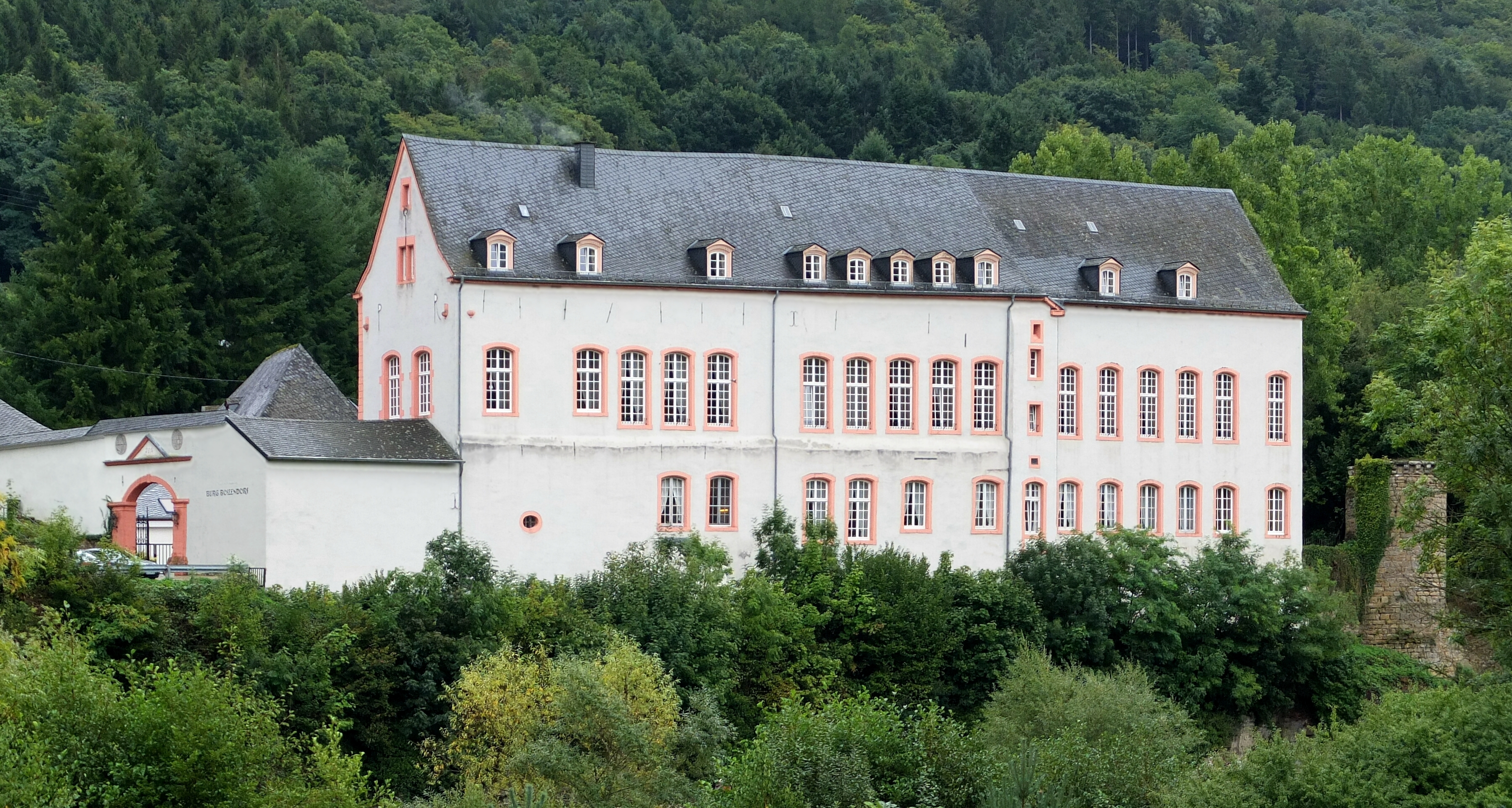 Bollendorf Castle, Eifel, Germany, view from W. This is a photograph of an architectural monument.It is on the list of cultural monuments of Bollendorf